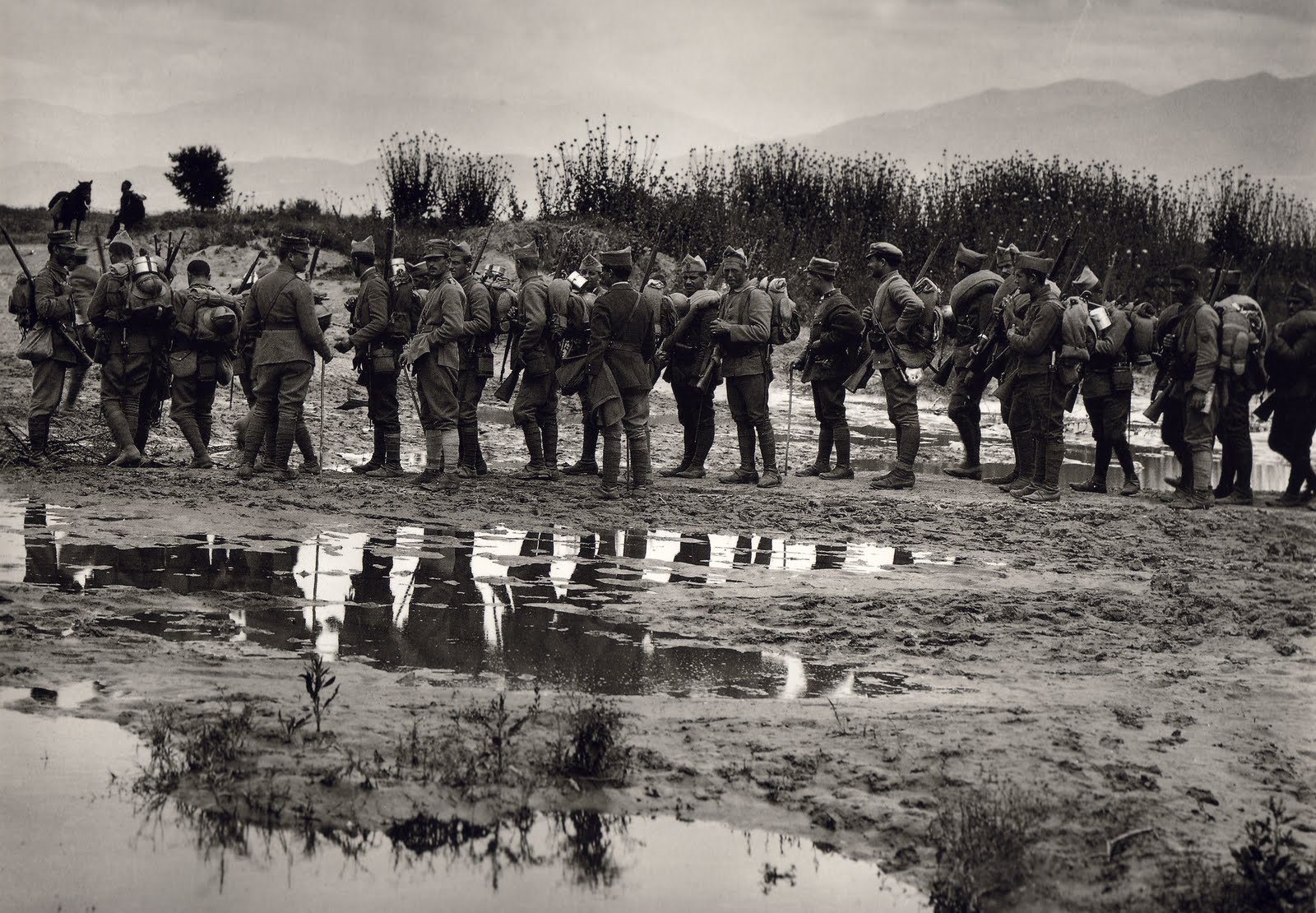 Greek troops at Strymon river, 1917/18